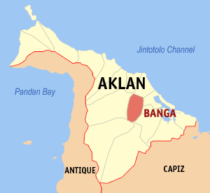 Map of Aklan showing the location of Banga